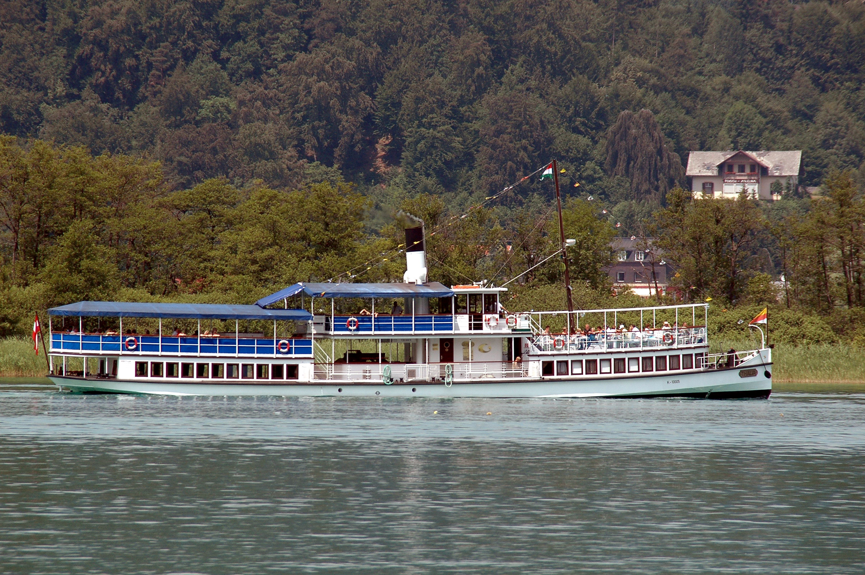 Steamship "THALIA“ in front of the Blumeninsel, municipality Pörtschach am Wörther See, district Klagenfurt Land, Carinthia, Austria, EU